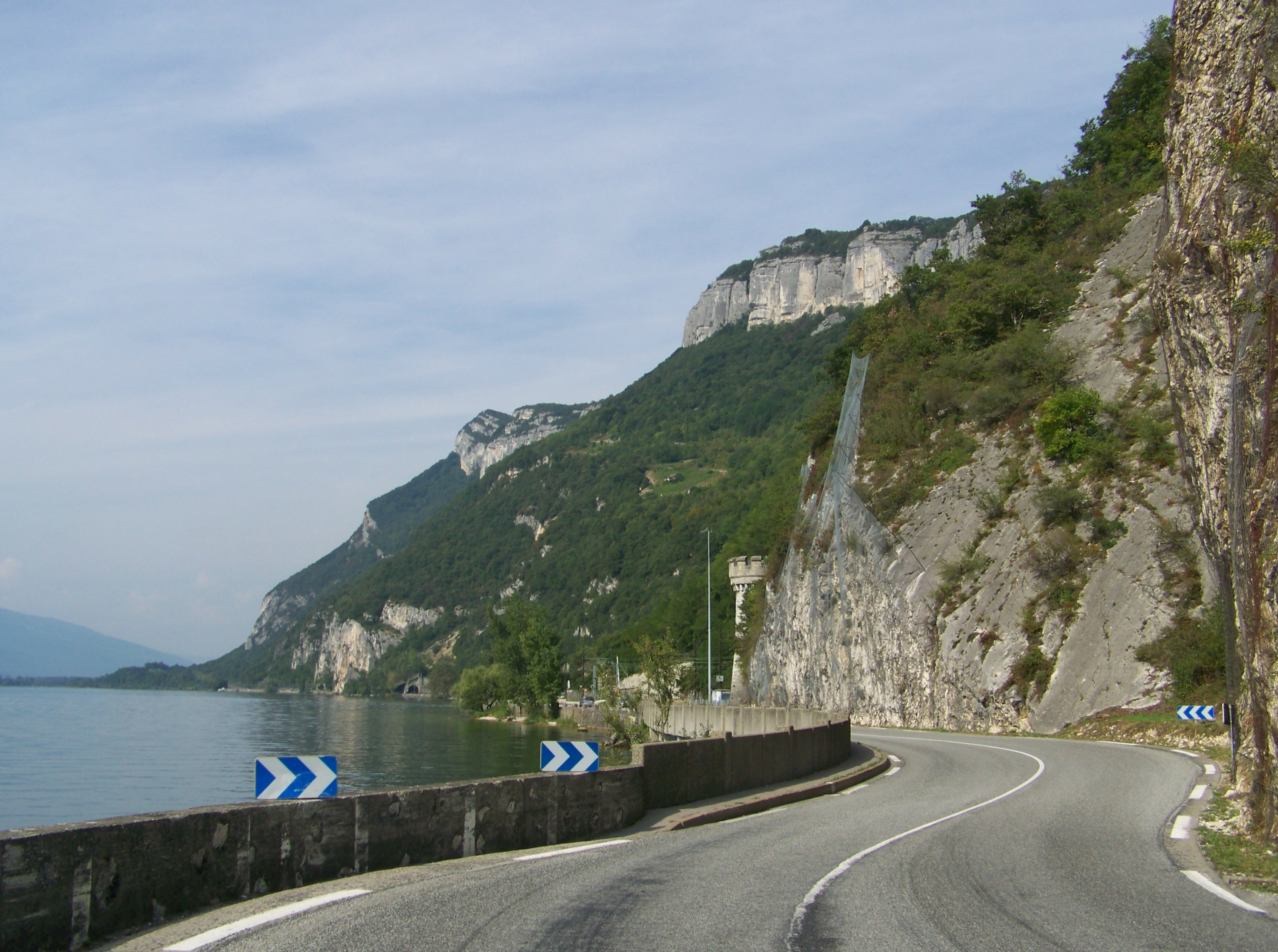 Sight of the French RD 991 road here between the Lac du Bourget lake and the Chambotte mountain, in Brison-Saint-Innocent, in Savoie.